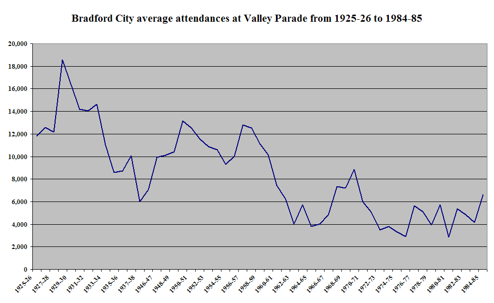 Attendances at Valley Parade from 1925-26 to 1984-85